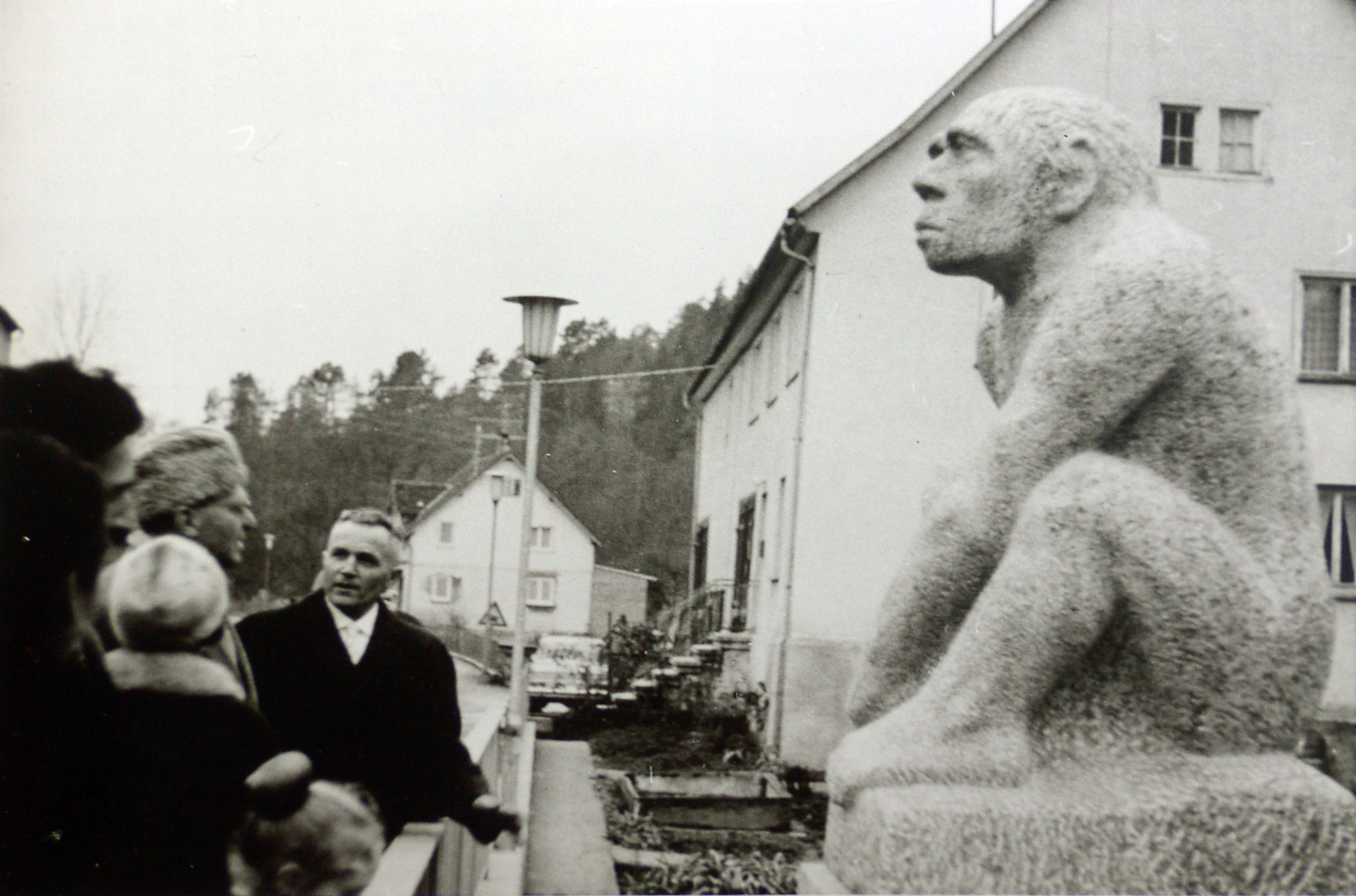 Veringenstadt: Aufstellung Neandertaler-Denkmal am 31. Dezember 1965: Regierungspräsident Willi Birn (2. v.re) und Bürgermeister Stefan Fink (re). Entwurf: Dr. Gustav Adolf Rieth, Tübingen. Bildhauer: Eduard Raach-Döttinger, Eningen. Material: Muschelkalk.